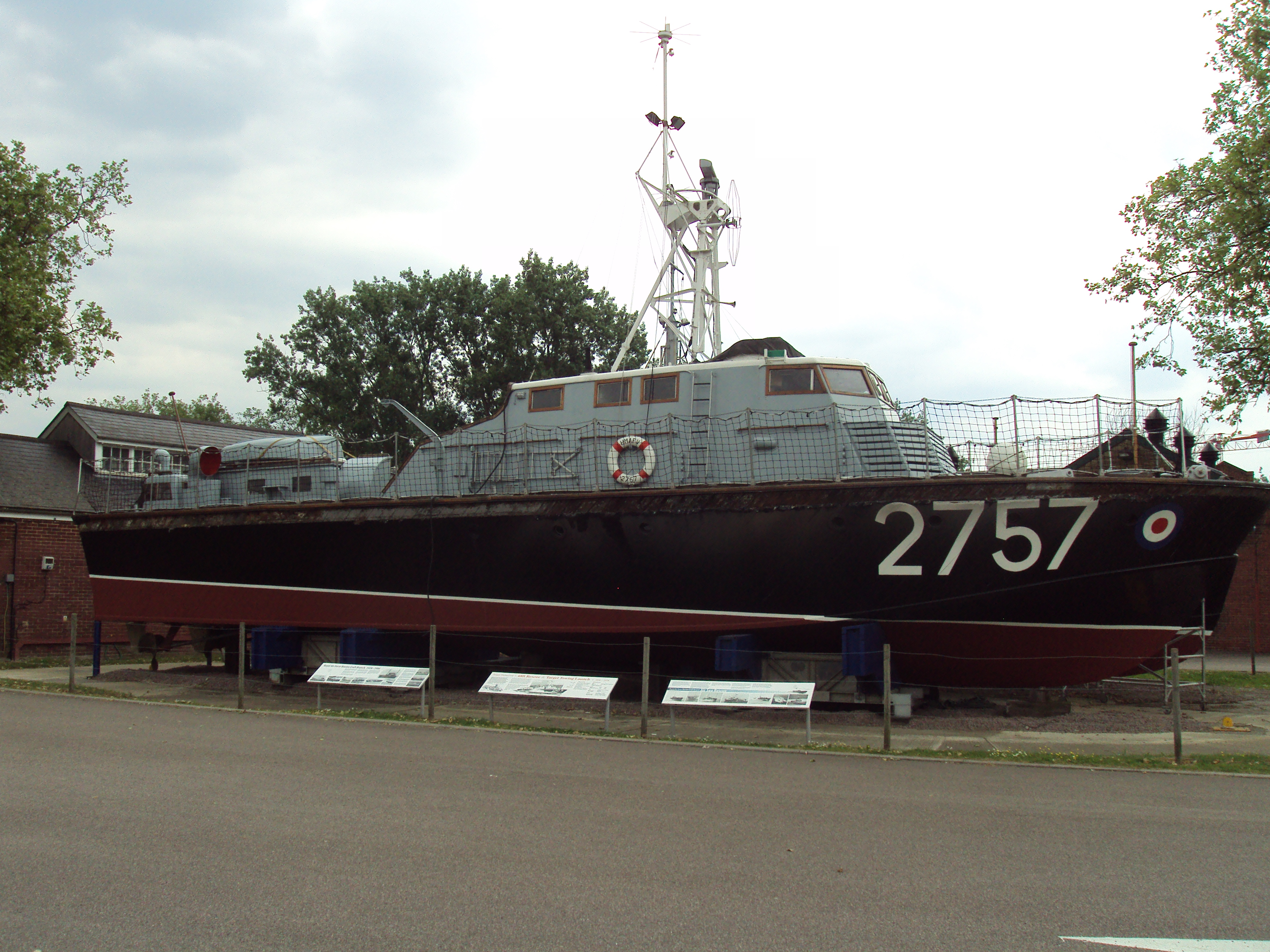 Boat in the grounds of the RAF Museum, London.